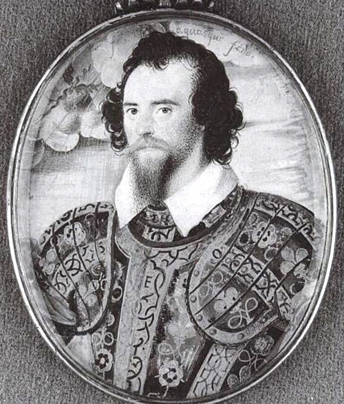 George Clifford, 3rd Earl of Cumberland, wearing his Greenwich armor